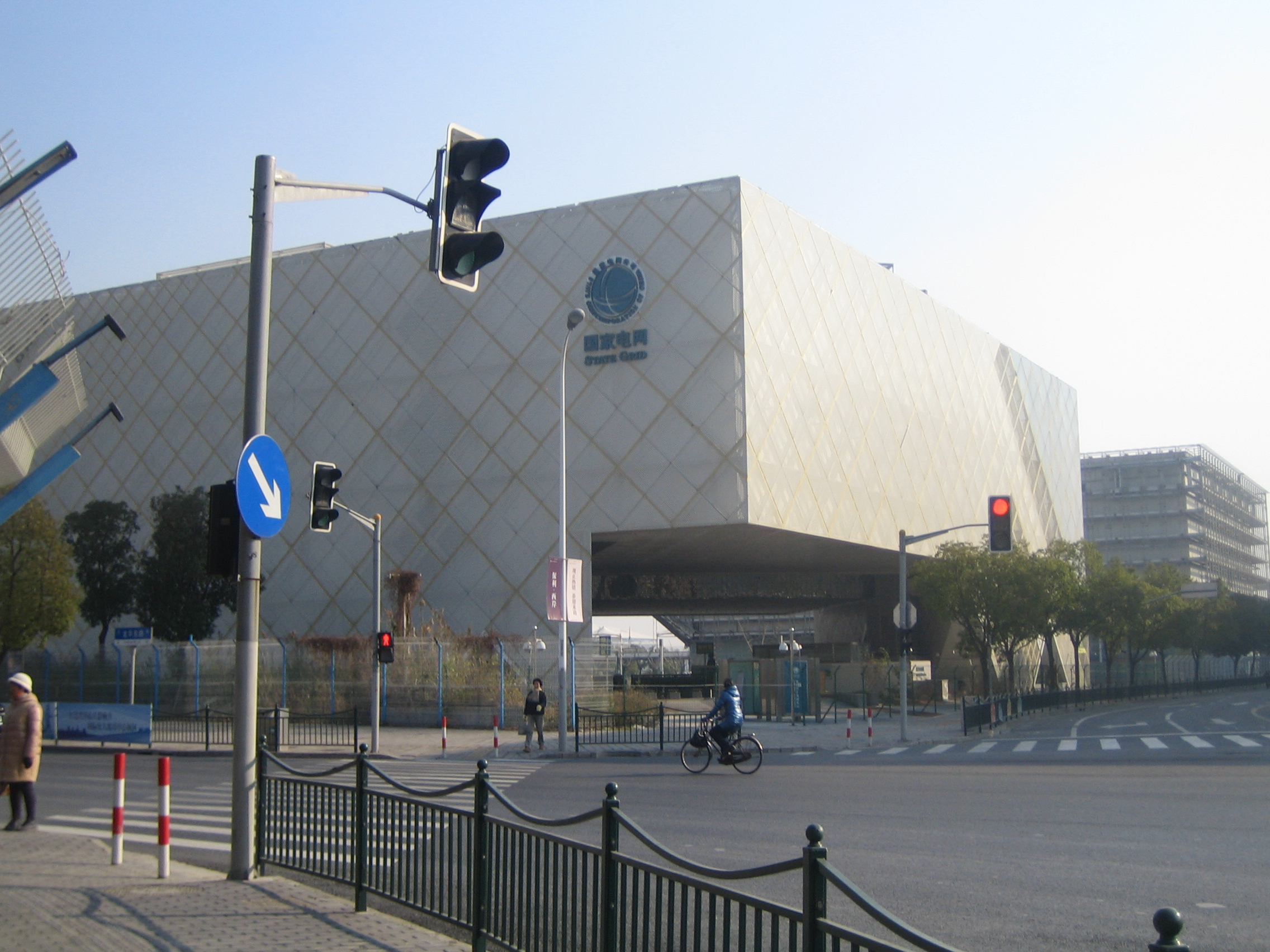 China State Grid Pavilion in 2014中文（中国大陆）: 2014年的上海世博会国家电网馆